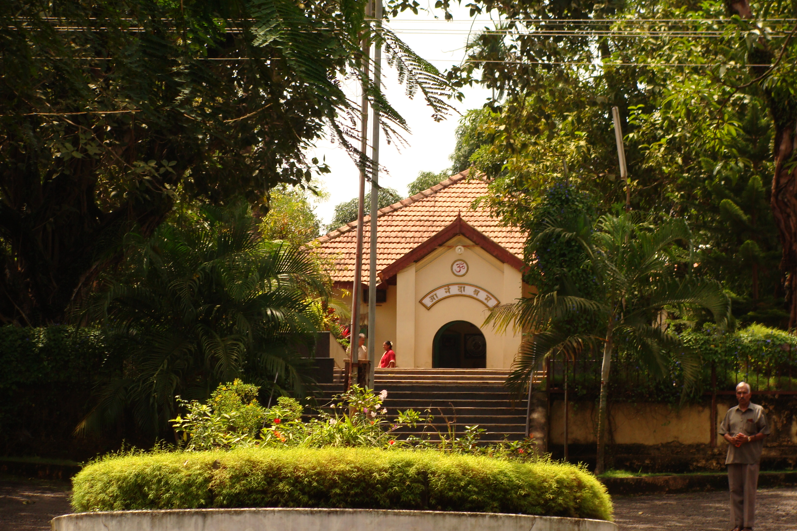 Anandashram Bhajan Hall with Garden and Flagpole. Image of Anandashram in Kanhangad. 2008. For the page